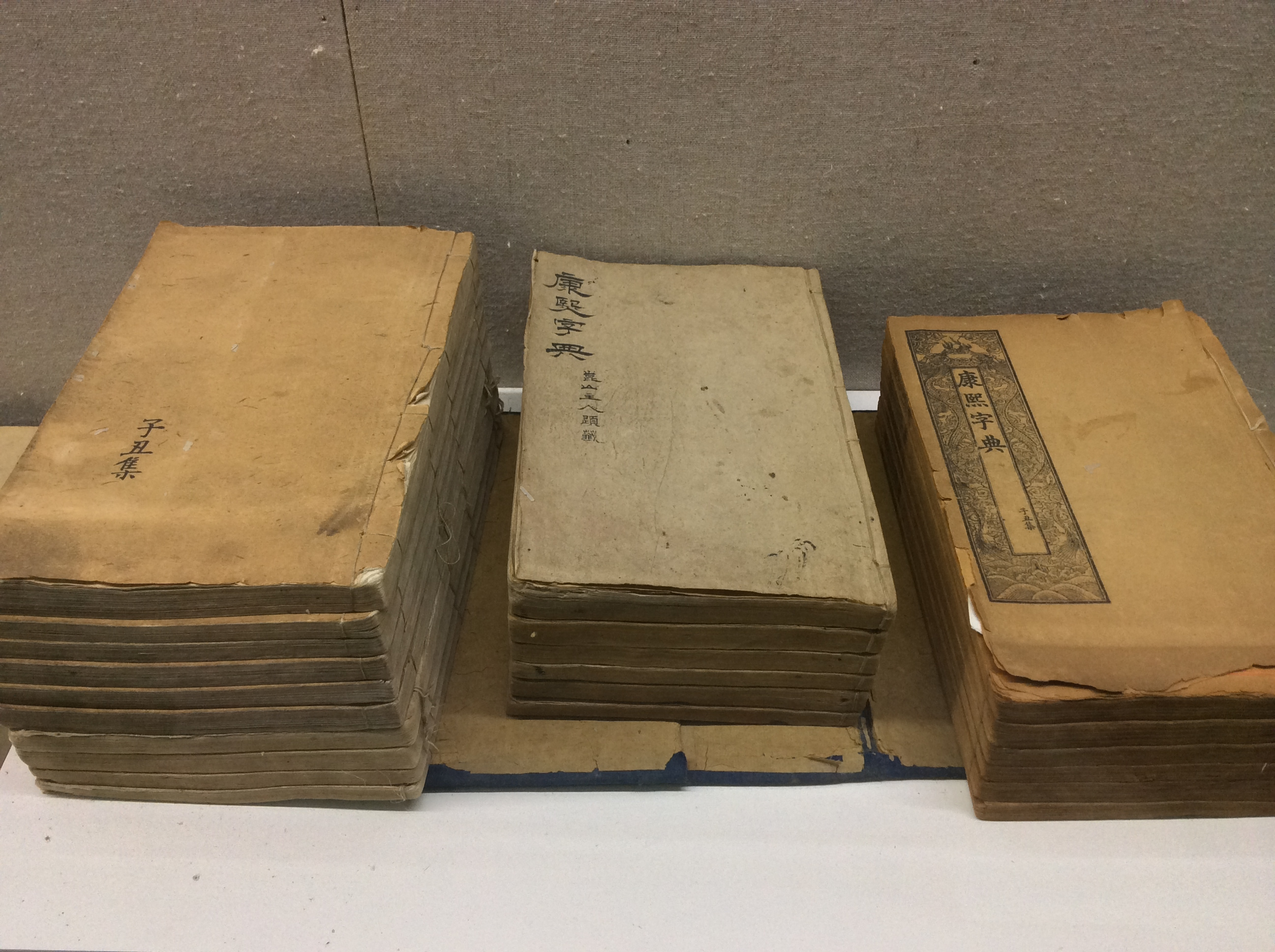 Kangxi Dictionary (康熙字典) exhibit in the Chinese Dictionary Museum, on the grounds of Huangcheng Xiangfu